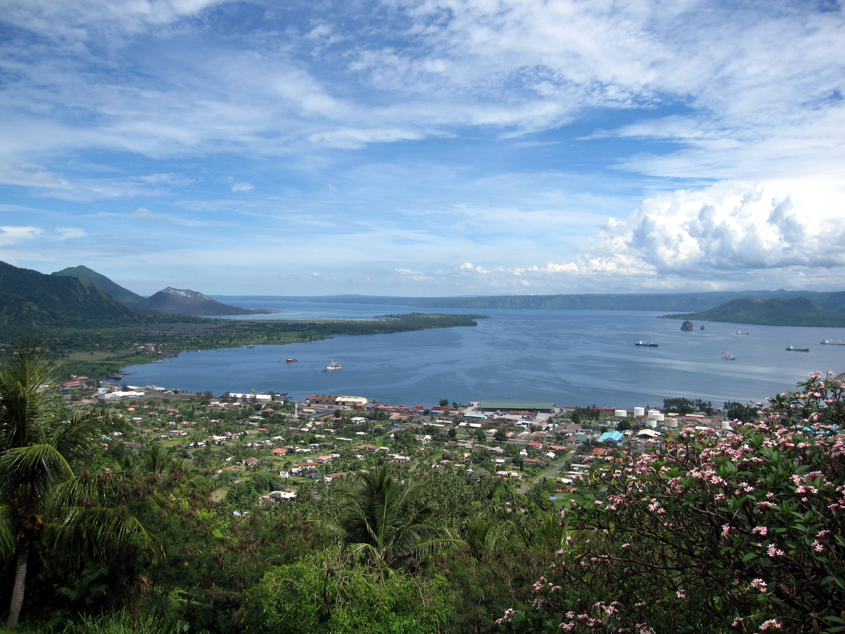 Rabaul from the Volcanology Observatory, the new town to the right, the destroyed old town to the left